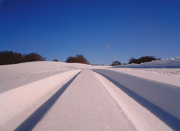 Winter 2008/2009